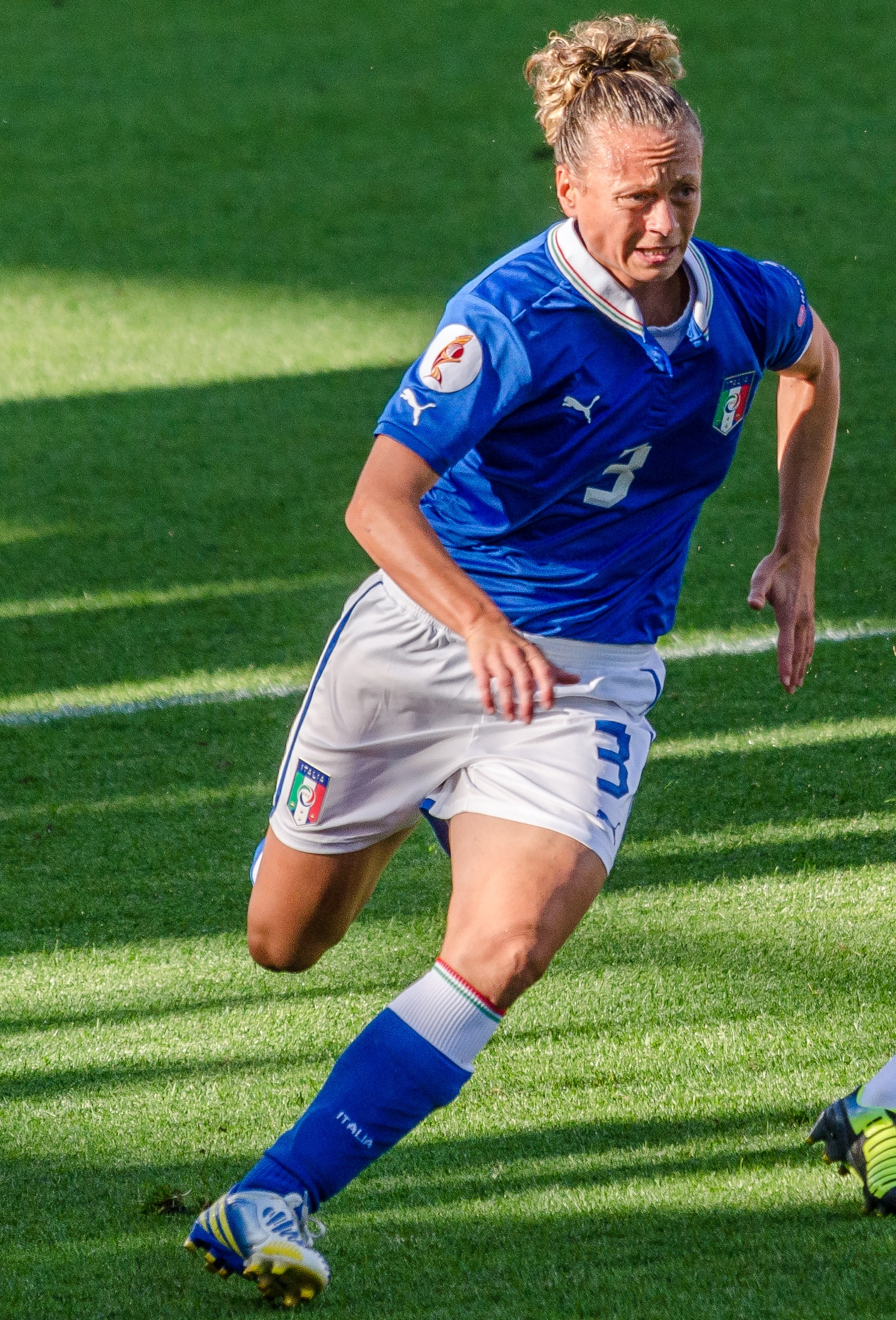 Italian football defender Roberta D'Adda playing the Quarter final against Germany in the UEFA Women's Euro 2013 at Myresjöhus Arena in Växjö.